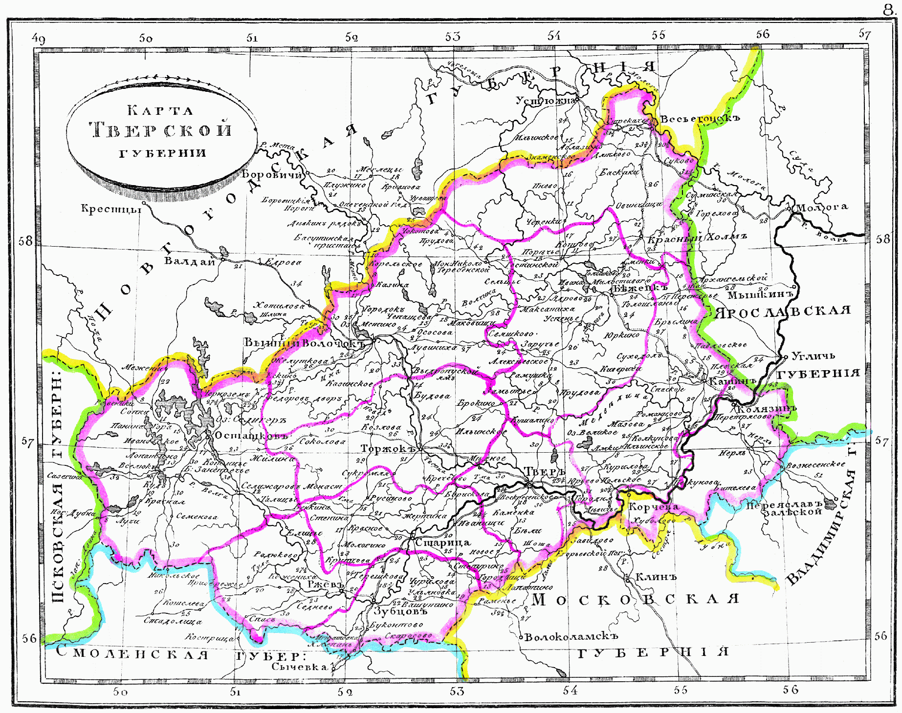 Map of Tver Governorate, 1835